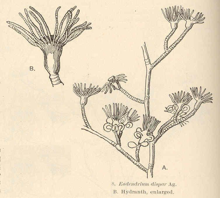 Eudendrium dispar Ag. B.Hydranth, enlarged Subject: Eudendrium, Hydroida Tag: Invertebrates